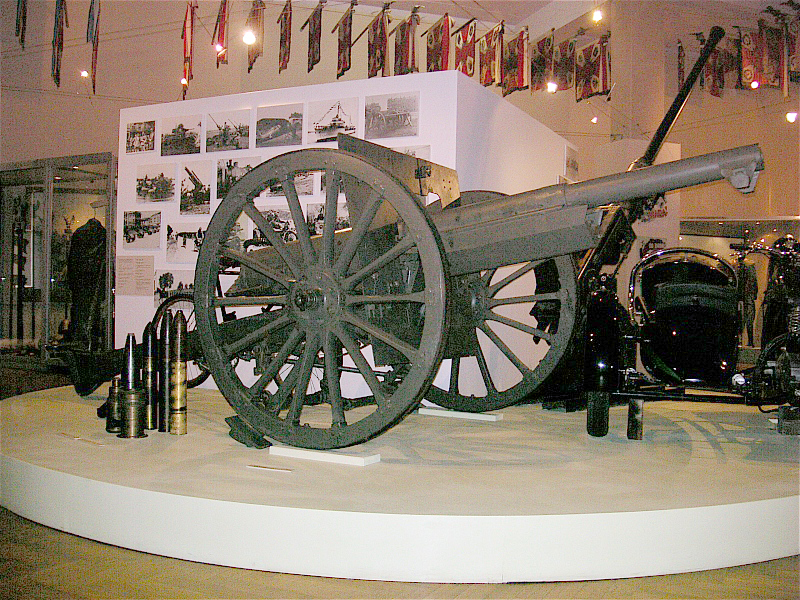 Cannon wz 1897 Schneider 75 mm gun used by the Polish Army in 1939, Polish Army Museum in Warsaw.